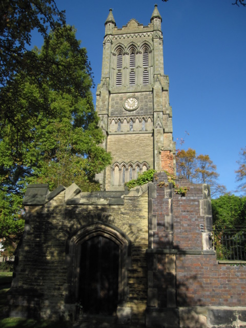 =West tower of the former Christ Church parish church, Crewe, Cheshire, seen from south-southeast. The tower was retained when much of the church was demolished in 1977 due to dry rot. In the foreground are parts of the walls of the former church.